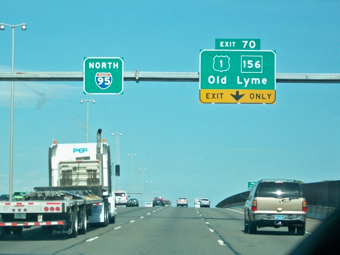 Crossing the Baldwin Bridge over the Connecticut River, between Old Saybrook, Connecticut and Old Lyme, Connecticut, along Interstate 95 northbound.